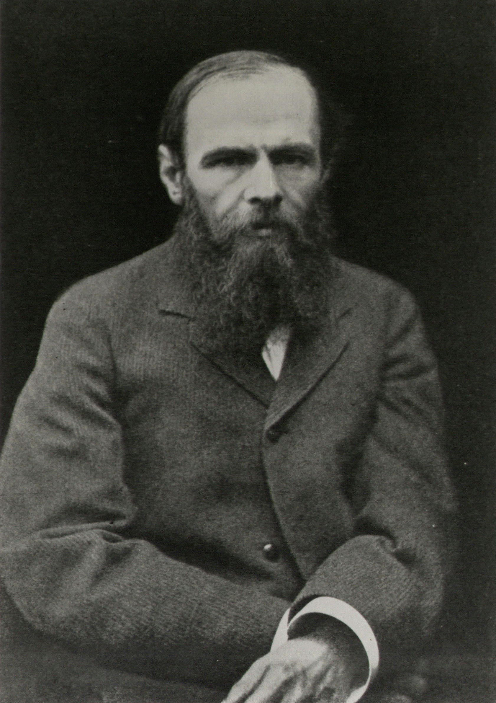 Last photo of Dostoyevksy, shot 6 months before his death on 9 February 1881